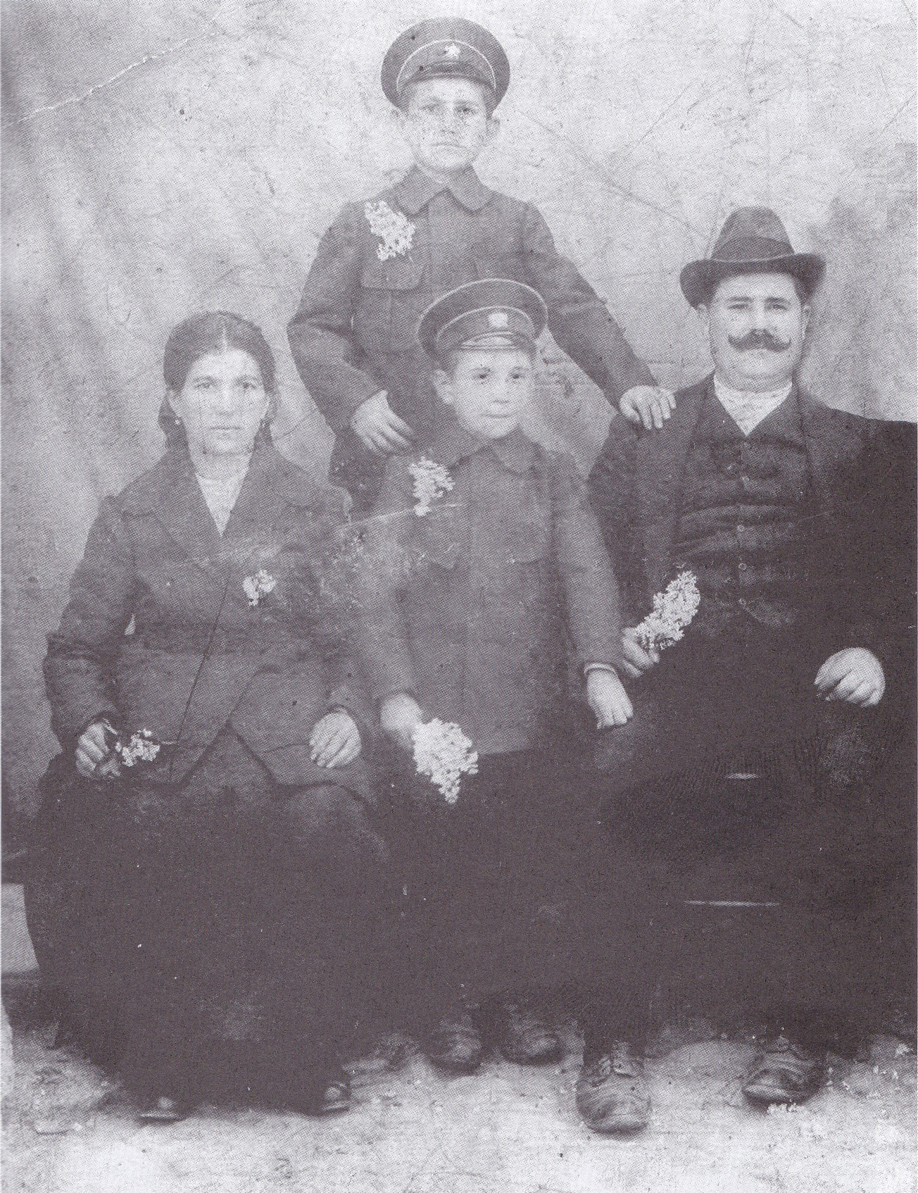 Kalchevi family 1922